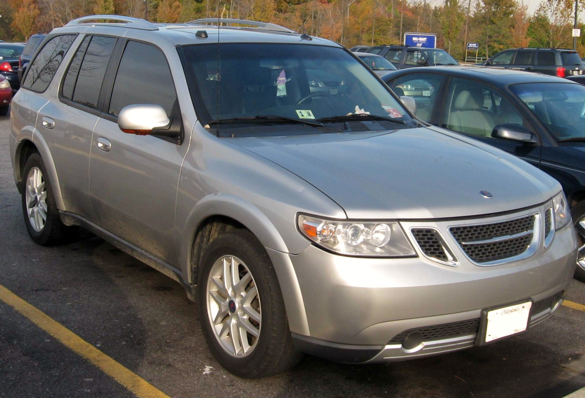 Saab 9-7X photographed in Clinton, Maryland, USA.